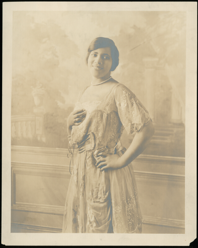 Portrait of Hazel Harrison with hands on hip